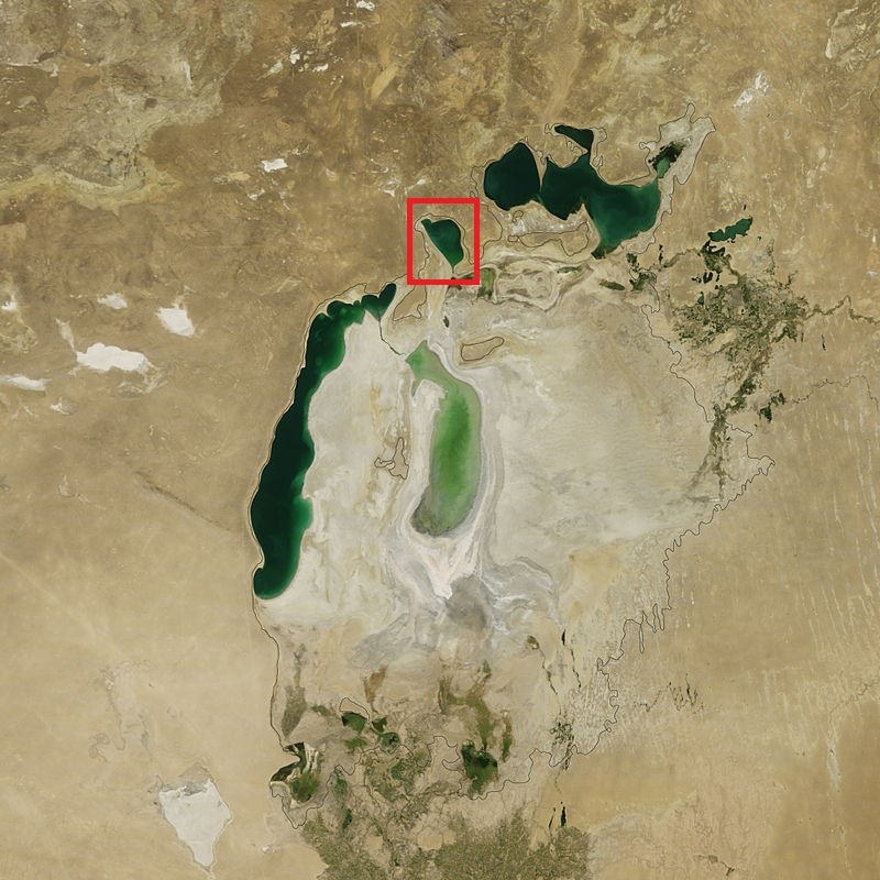 Geographical location of Barsa-kelmes Lake in the former Aral Sea.